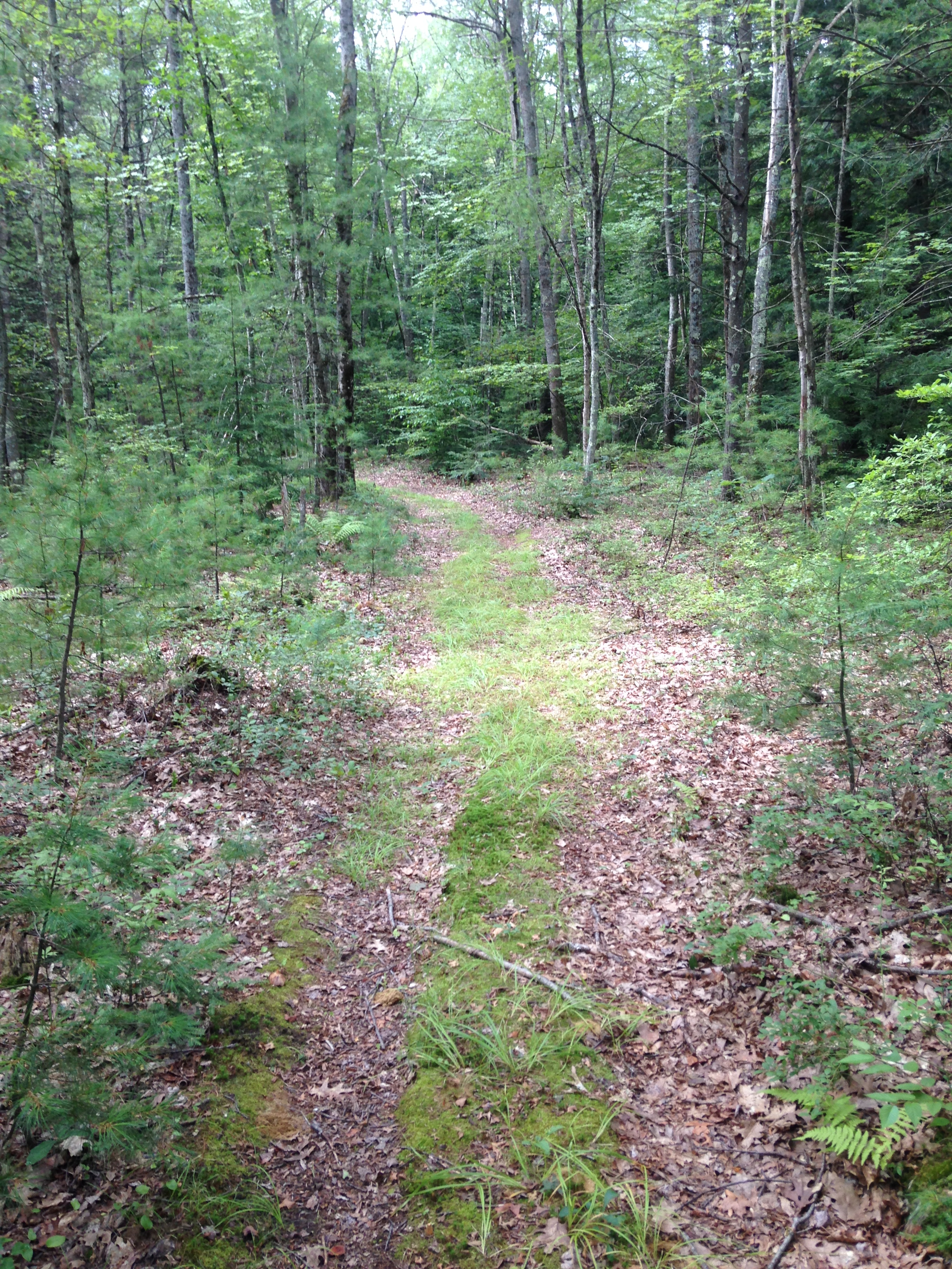 This is a photo of a trail in the Birch Street (Fallen Timbers) Conservation Area.